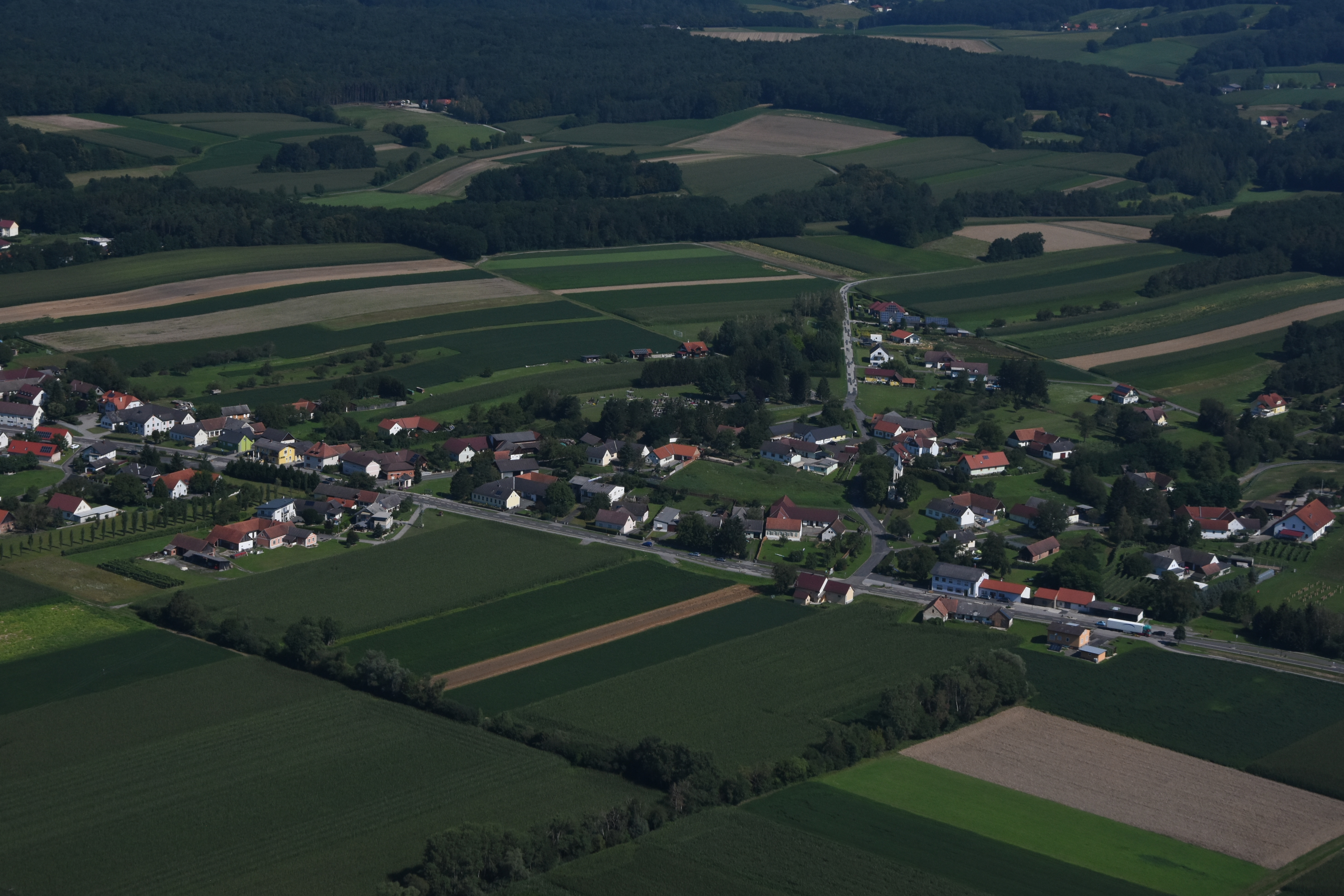 Aerial photograph Poppendorf im Burgenland